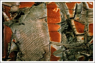 Bark, somewhere in the world, fot. Elżbieta Dzikowska